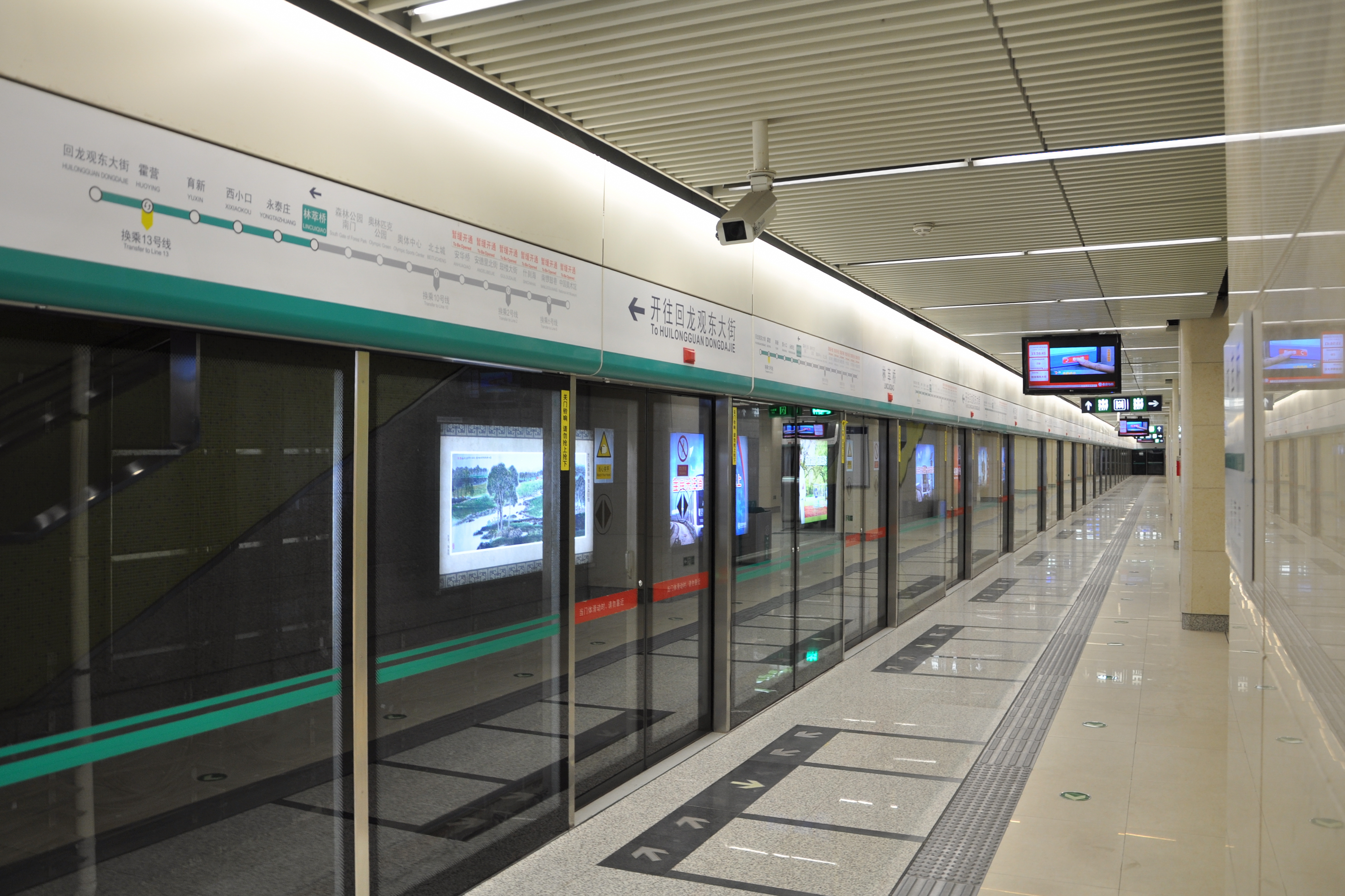 The platform of Lincuiqiao station, Line 8, Beijing Subway.